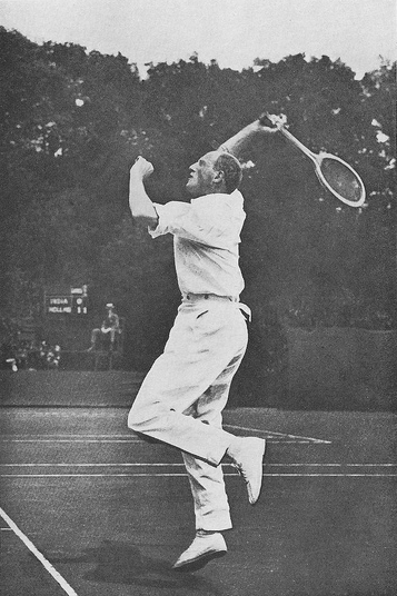 Christiaan van Lennep